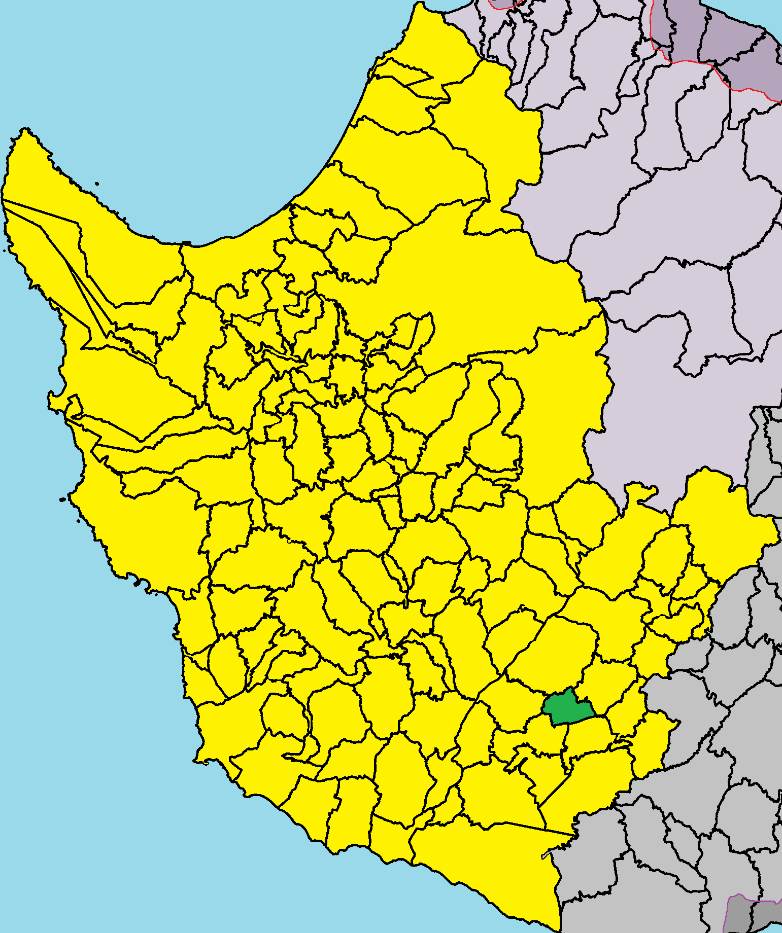 Agios Georgios in Paphos District.